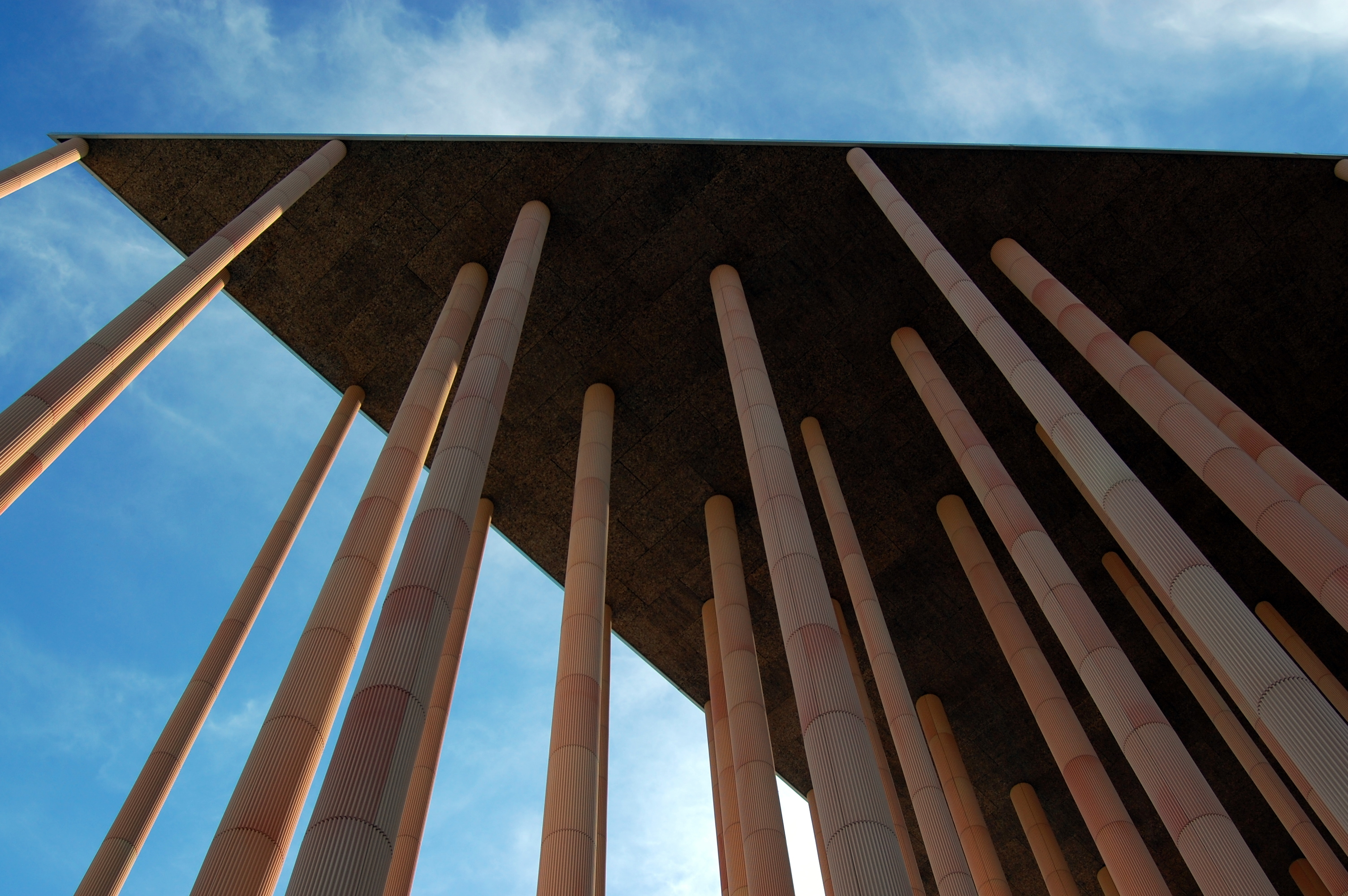 Spain Pavillion at Expo Zaragoza 2008, Spain